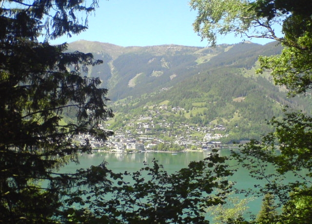 Zell am See, view from district Thumersbach, with the mountain Schmittenhöhe in the background.